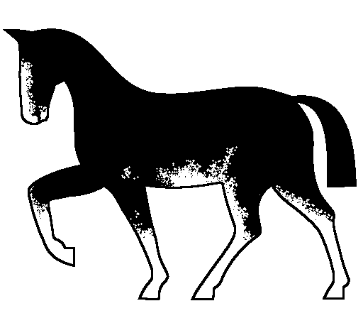 Horse colour pattern icon.